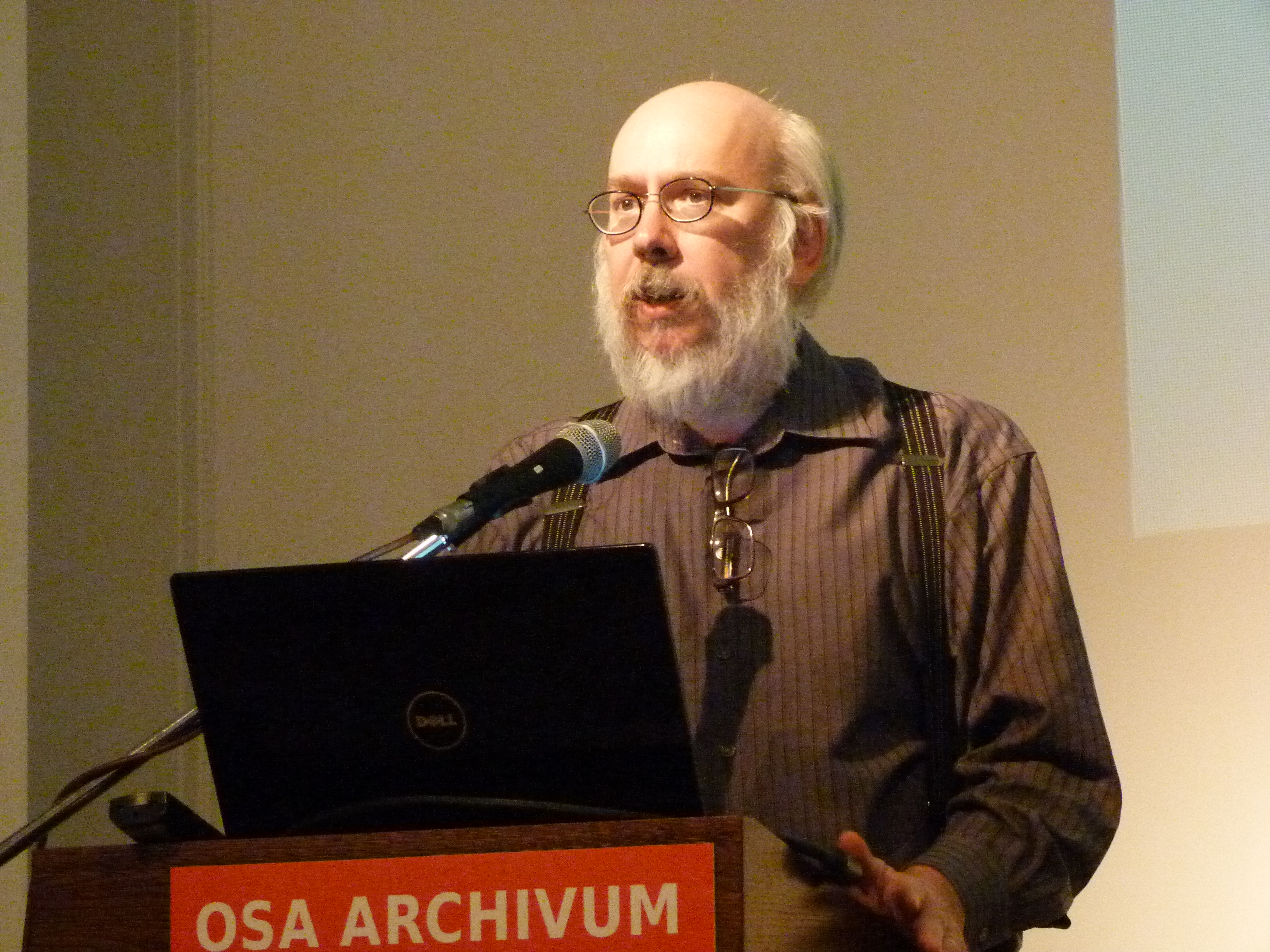 Live on the 21st of June, 2012 Budapest, the Open Society Archives. Henry Jenkins: How Content Gains Meaning and Value in the Era of Spreadable Media. Henry Jenkins is Provoost’s Professor of Communication, Journalism, Cinematic Arts, and Education at the Universíty of Southern California. He is co-author, with Sam Ford and Joshua Green, of the 2013 book Spreadable Media:Creating value and Meaning in a Networked Culture. He is also author of many other books, including Convergence Culture (2006) and Fans, Bloggers, and Garners (2006). From 1993-2009, he was the MIT Peter de Flores Professor of Humanities and co-directed MIT’s Comparative Media Studies graduate degree program. Since coming to USC, Jenkins has formed the Participatory Culture and Learning Lab which includes Project New Media Literacies and Media Activism and Participatory Politics. (OSA flyer). Everyday people play an increasingly central role in how media spreads. Professor Jenkins focuces on this phnomenom. A felvételek 2012. június 21 –én csütörtökön készültek Budapesten, az Open Society Archives 1051 Budapest Arany János utca 32 szám alatti előadótermében. Henry Jenkins: How Content Gains Meaning and Value in the Era of Spreadable Media. Sources/források: Tags/címkék: Henry Jenkins 2012 Budapest Open Society Archives Center for Media and Communication Studies Center for Media Research and Education at BME MOKK Open Society Institute Magyarország Carpathian Basin